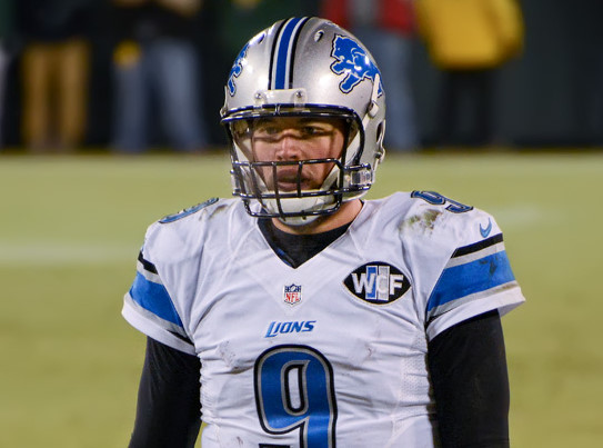 Detroit Lions quarterback, Matthew Stafford, playing against the Green Bay Packers on December 28, 2014.